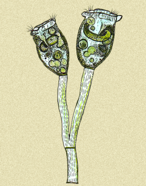 Epistylis sp.